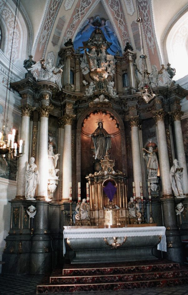 Baroque altar of Michael Ignatius Klahr in parish church in Lądek-Zdrój (Lower Silesia, Poland).